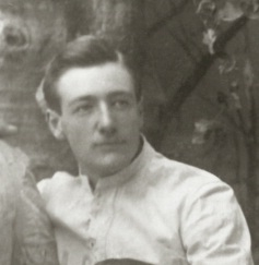 Photograph of George DeHaven